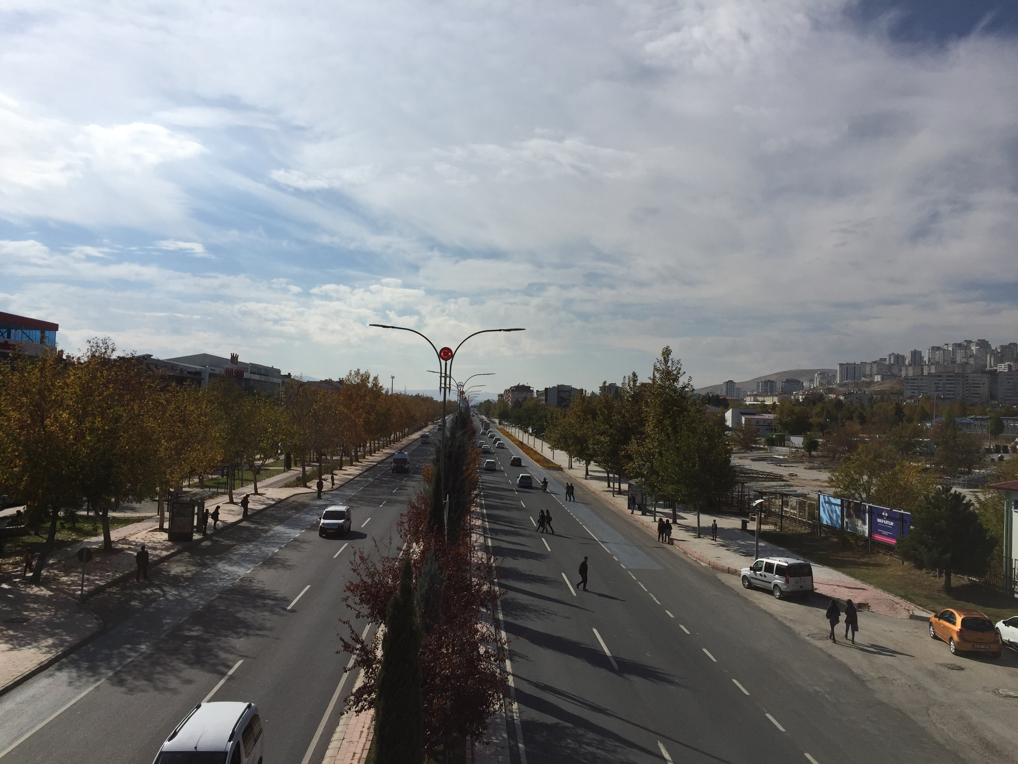 Elazığ, Turkey